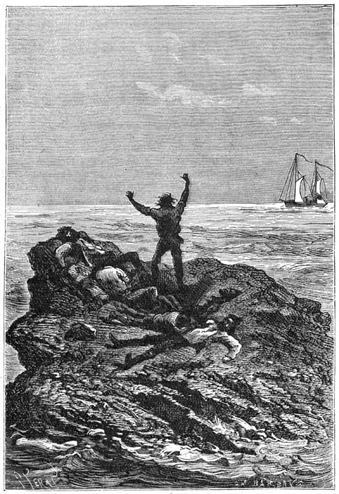 An illustration from Jules Verne's novel "The Mysterious Island" (1873-74) drawn by Jules Férat.